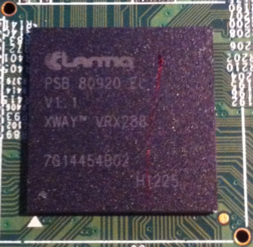 Chipset Lantiq XWAY VRX288 for deployment of VDSL/ADSL capabilities